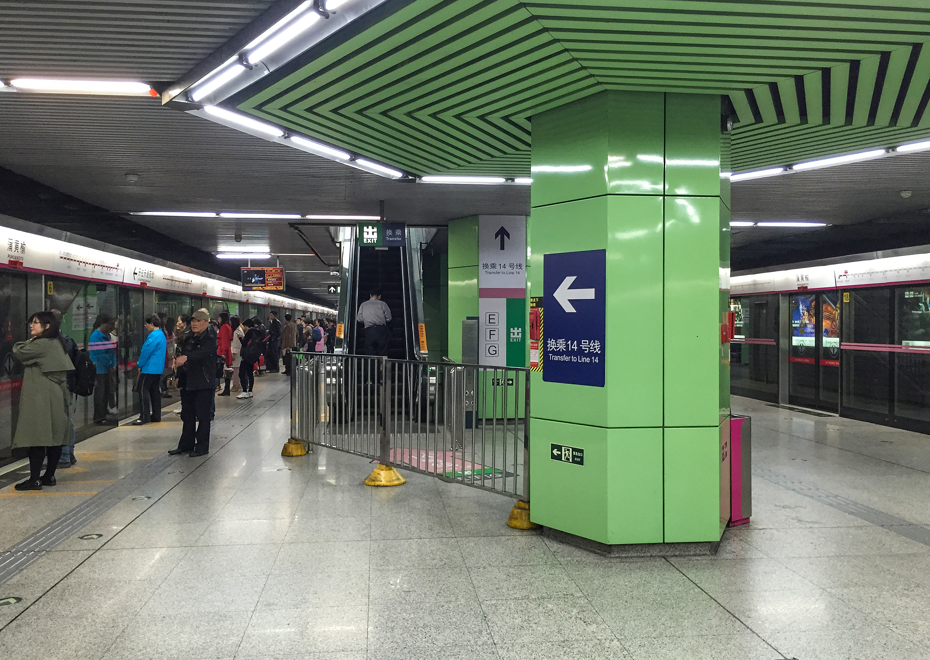 The name of Puhuangyu combines the first character from the names of three villages: Puzhuang (蒲庄), Huangtukeng (黄土坑) and Yushucun (榆树村). Likewise Liupanshui (Liuzhi, Panxian, Shuicheng).